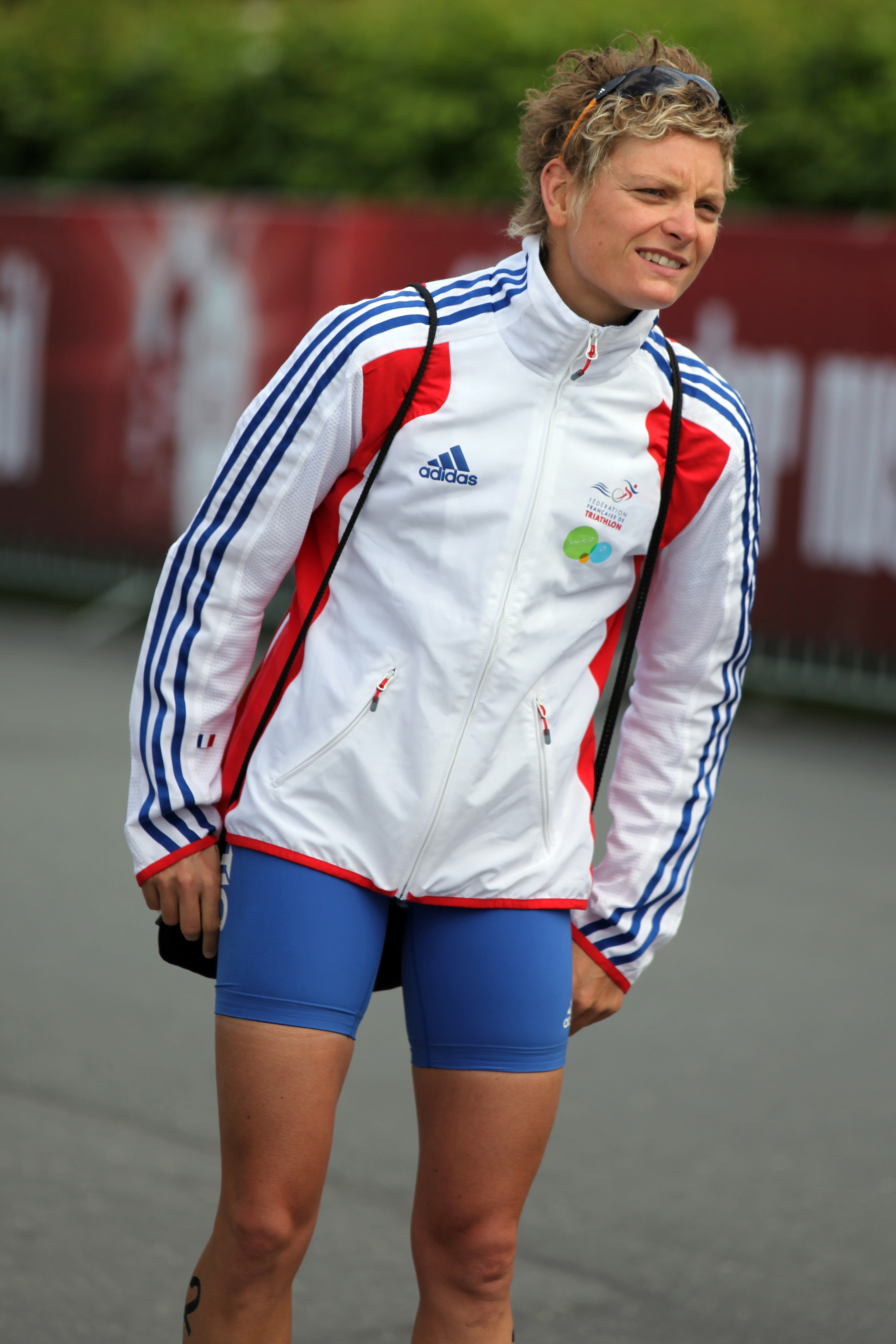 Carole PEON at the World Triathlon Series event in Kitzbühel, 2012.